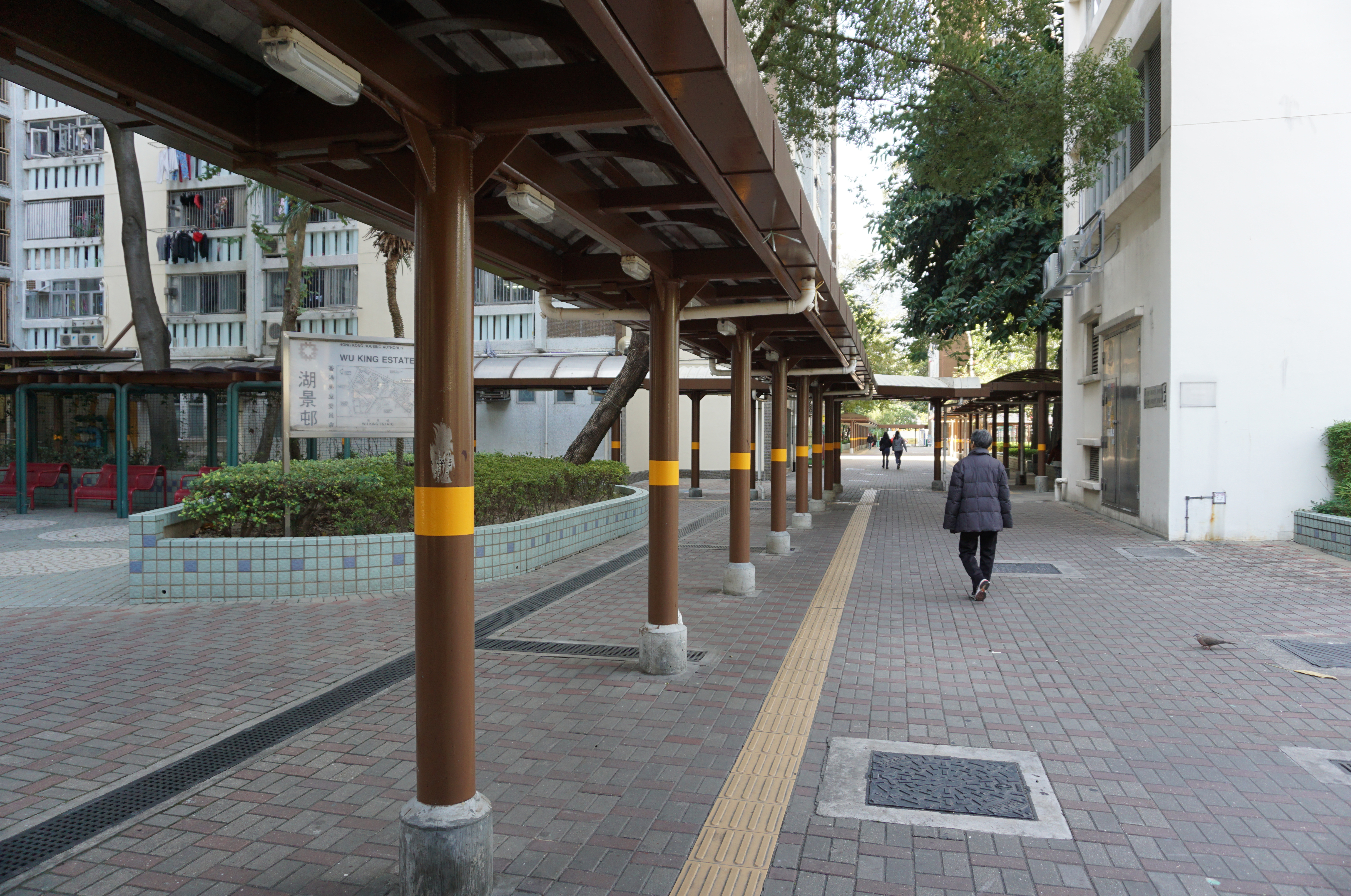 Wu King Estate in Tuen Mun, Hong Kong.